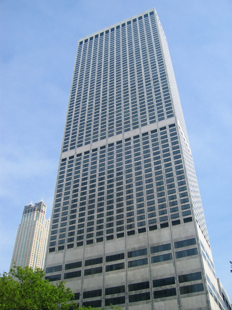 Water Tower Place, Chicago, Illinois. Photographed 27 May, 2006. © Jeremy Atherton, 2006.